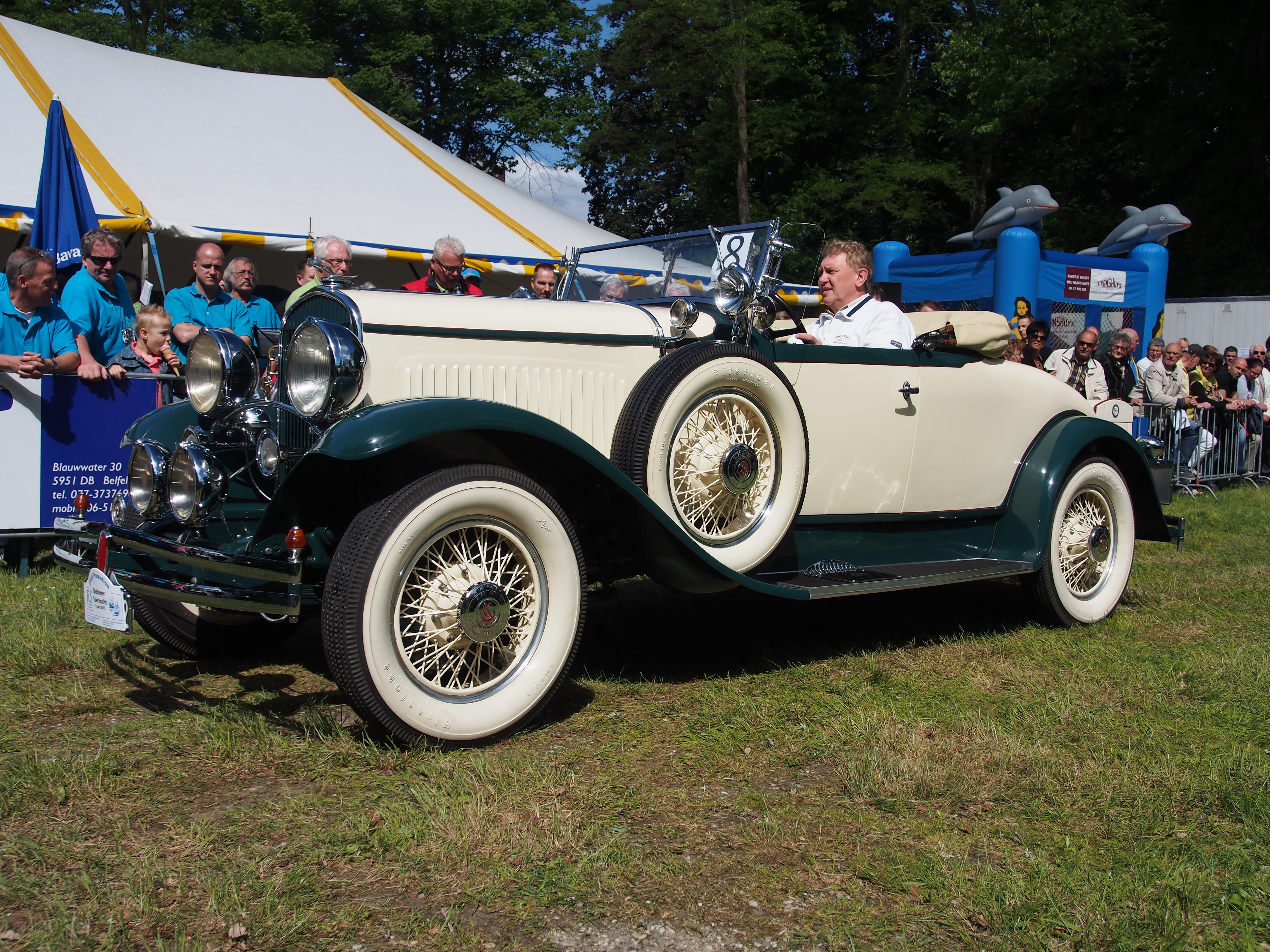 This is a picture of the 1929 Chrysler Imperial Series 75.